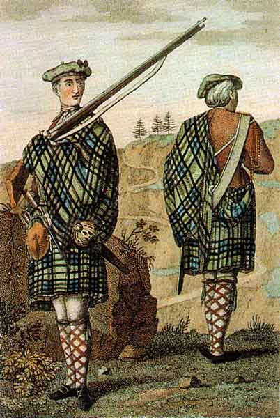 A private and corporal of a Highland Regiment, circa 1744. The private is wearing a belted plaid in the Government tartan. Note how the plaid is being used to protect the musket lock from rain and wind.